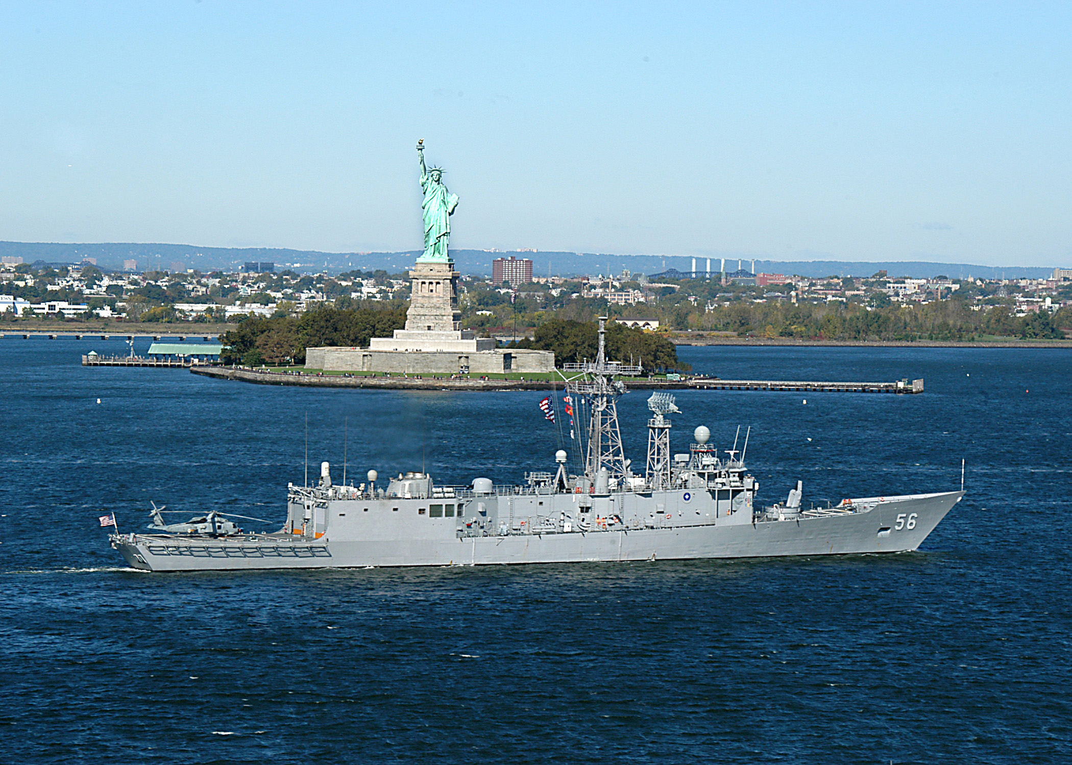 041012-N-6616W-001 New York Harbor, N.Y. (Oct. 12, 2004) - The Perry class frigate the USS Simpson (FFG 56) sails past the Statue of Liberty as part of a Parade of Ships. Simpson is currently taking part in the NATO Standing Naval Force Atlantic (SNFL) 2004 exercises. SNFL is a permanent peacetime multinational naval squadron composed of destroyers and frigates from the navies of various NATO nations.